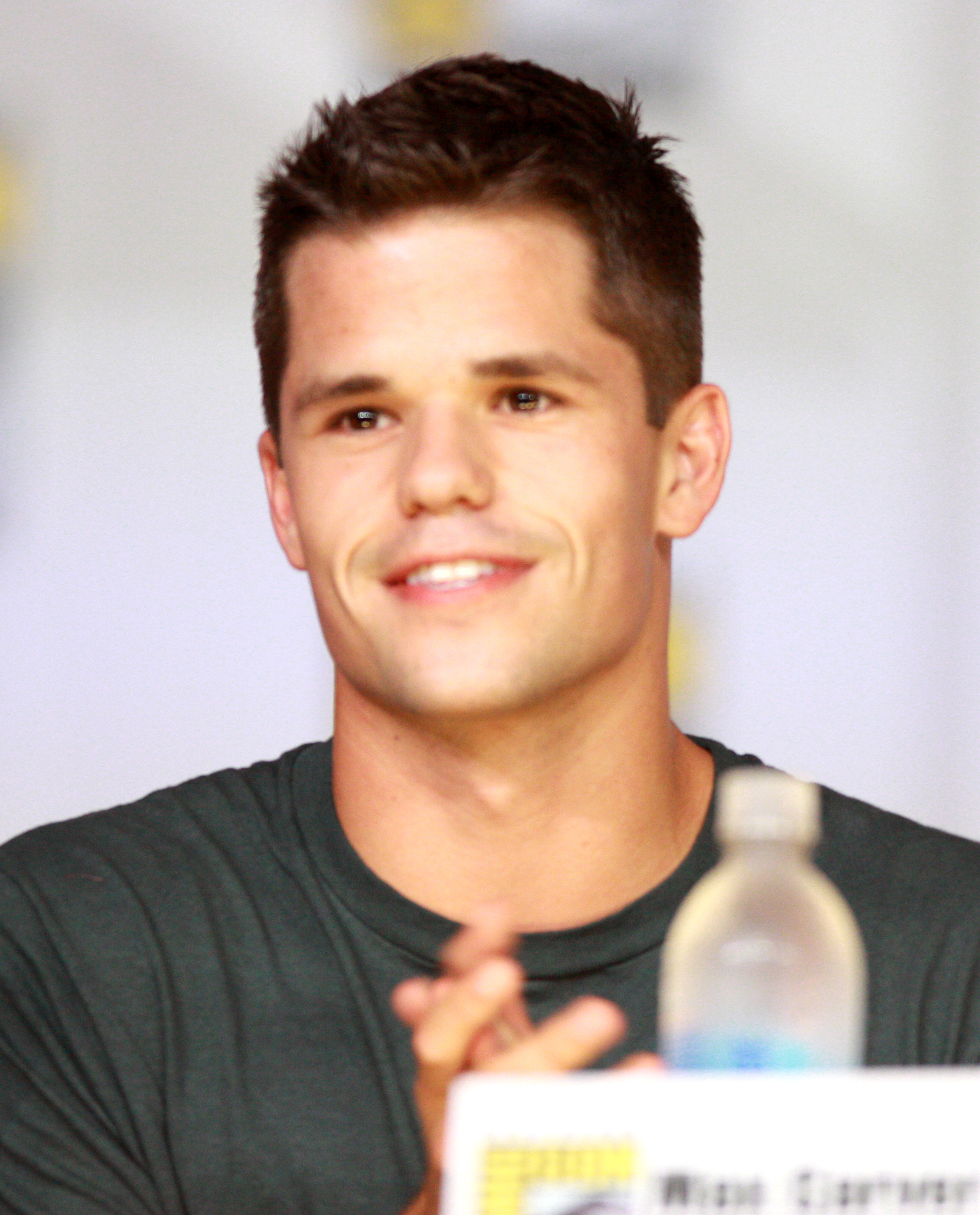 Max Carver at the 2013 San Diego Comic Con International in San Diego, California.